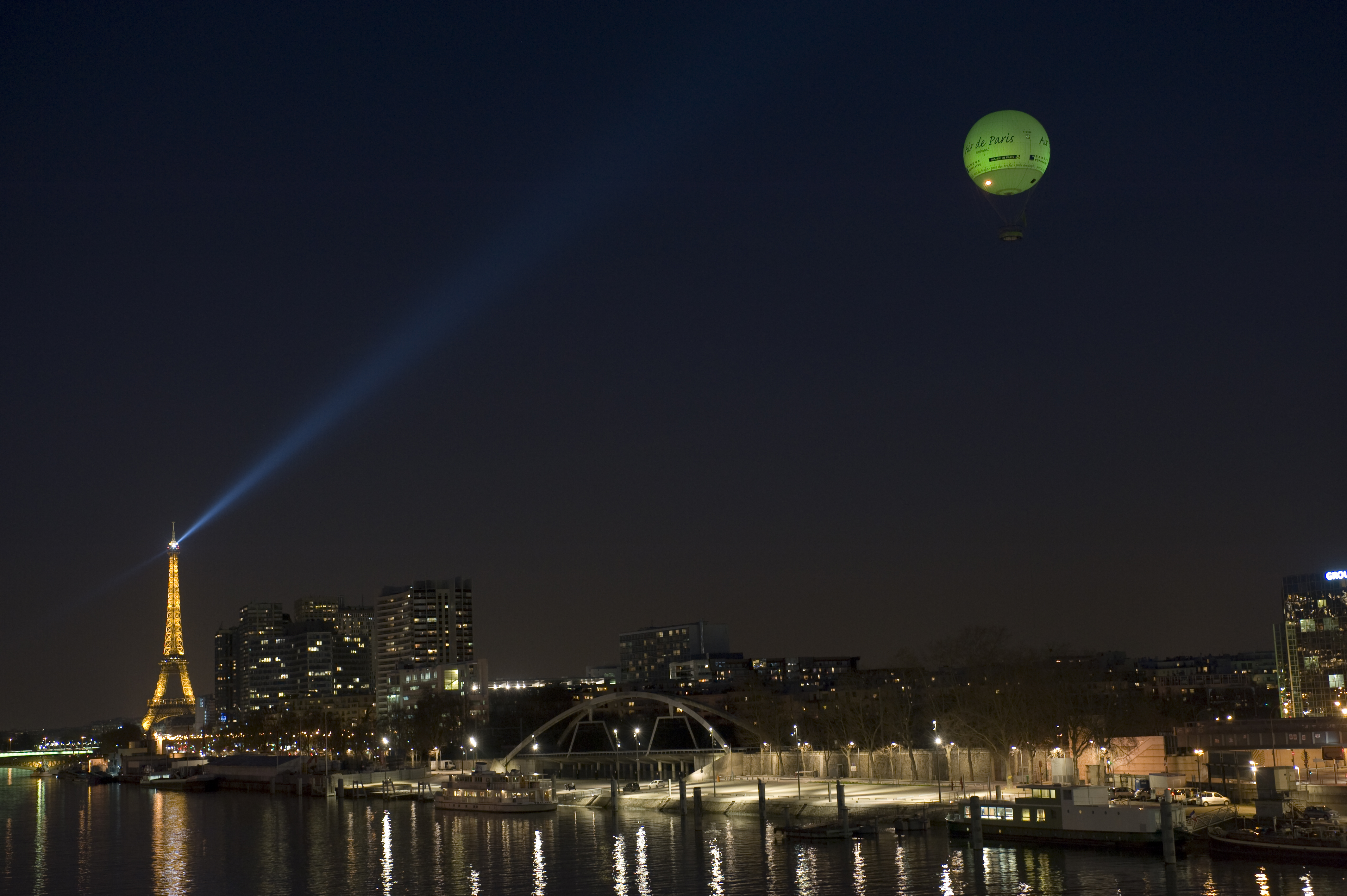 the "Ballon air de Paris" by night